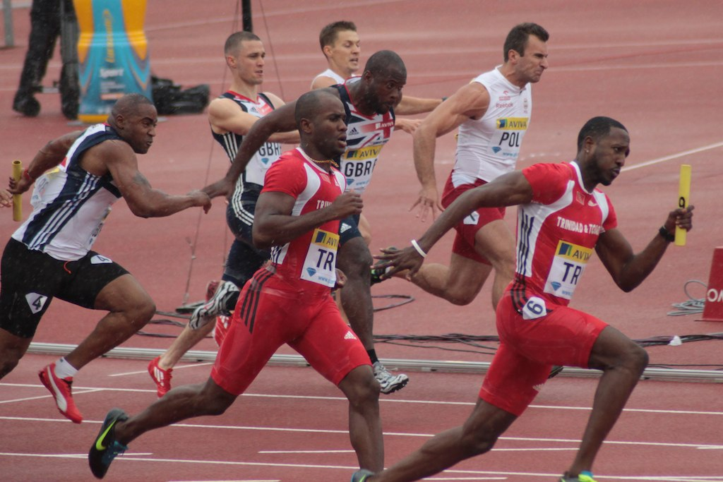 Crystal Palace Grand Prix, Diamond League 2012, Mark Lewis-Francis (GBR), Daniel Talbot (GBR), Emmanuel Callender (TRI), Robert Kubaczyk (POL), Simeon Williamson (GBR), Kamil Kryński (POL), Richard Thompson (TRI)